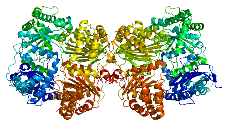 Structure of the IDE protein. Based on PyMOL rendering of PDB 2g47.